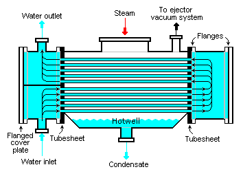 This is a schematic diagram of a surface condenser used for condensing the exhaust steam from a steam turbine.